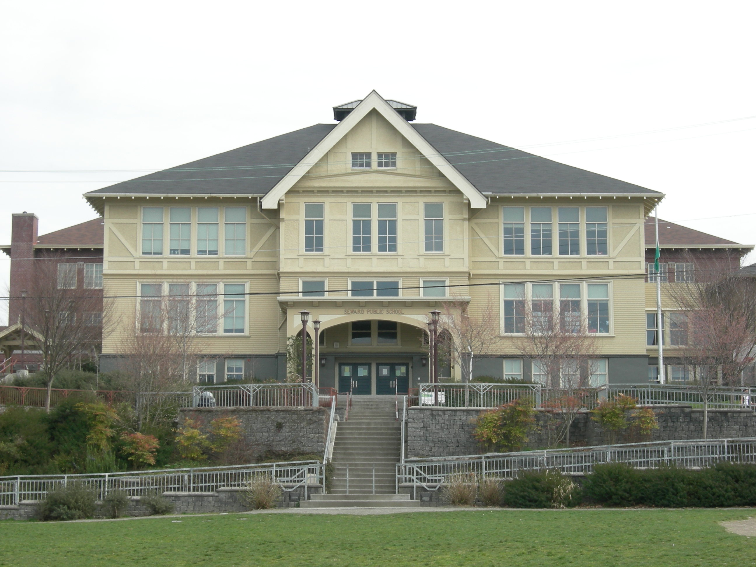 Seward School, Seattle, Washington, seen from the west side. This is the 1905 of this landmark school, which is a congeries of several buildings tied together by an atrium.